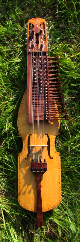 A swedish 3-row chromatic nyckelharpa built by Fredrik Söderström in 2008.